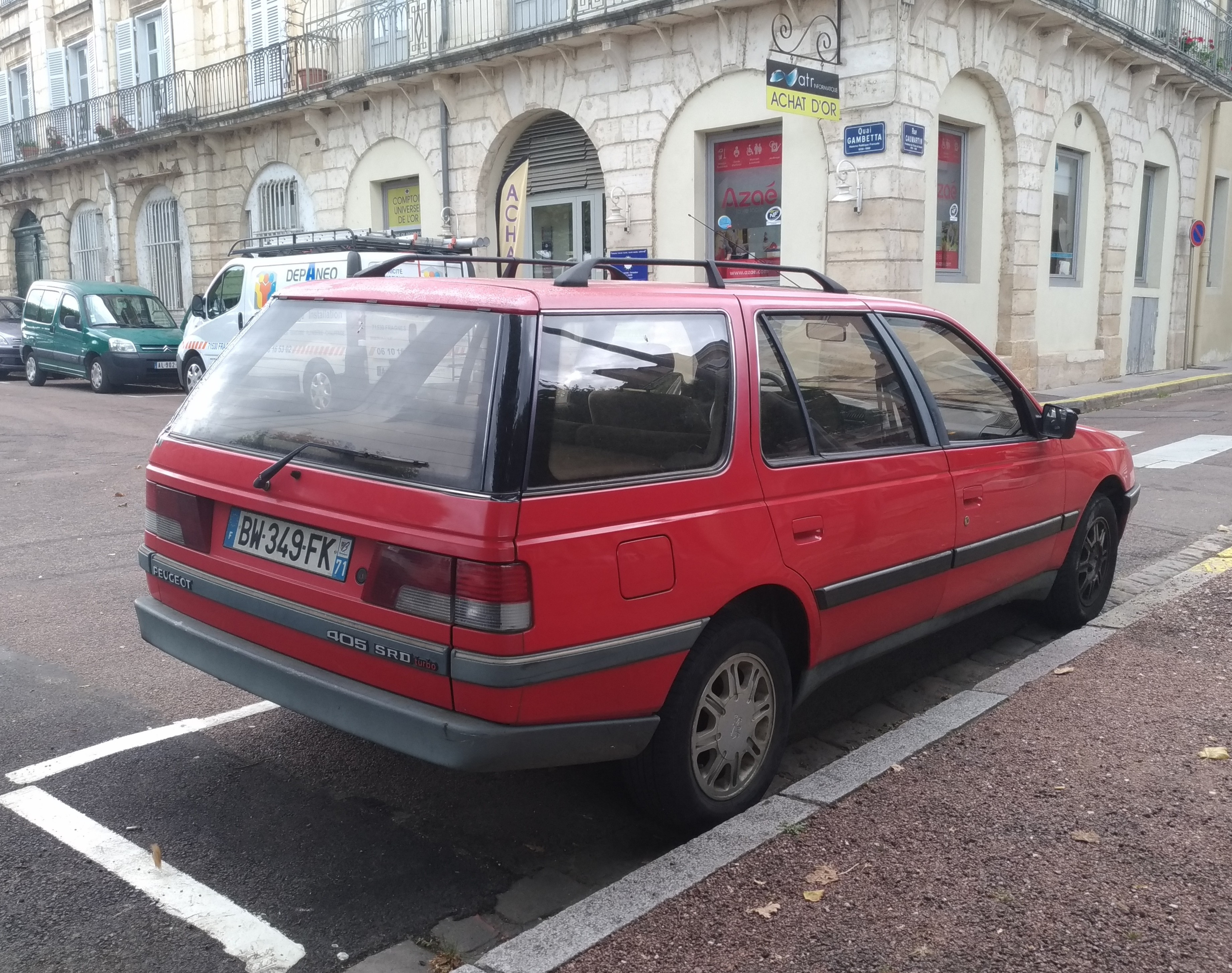 1989 Peugeot 405 Break (1.9 TD 90 hp) at Chalon sur Saône